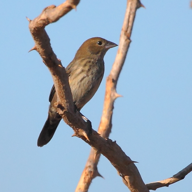 Blue-black Grassquit (female) at Chapada dos Veadeiros - GO - Brazil